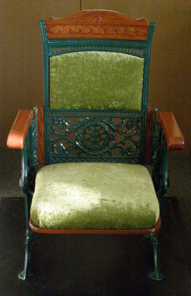 Prototype seat with final choice upholstery. Ironwork paint subject to change.